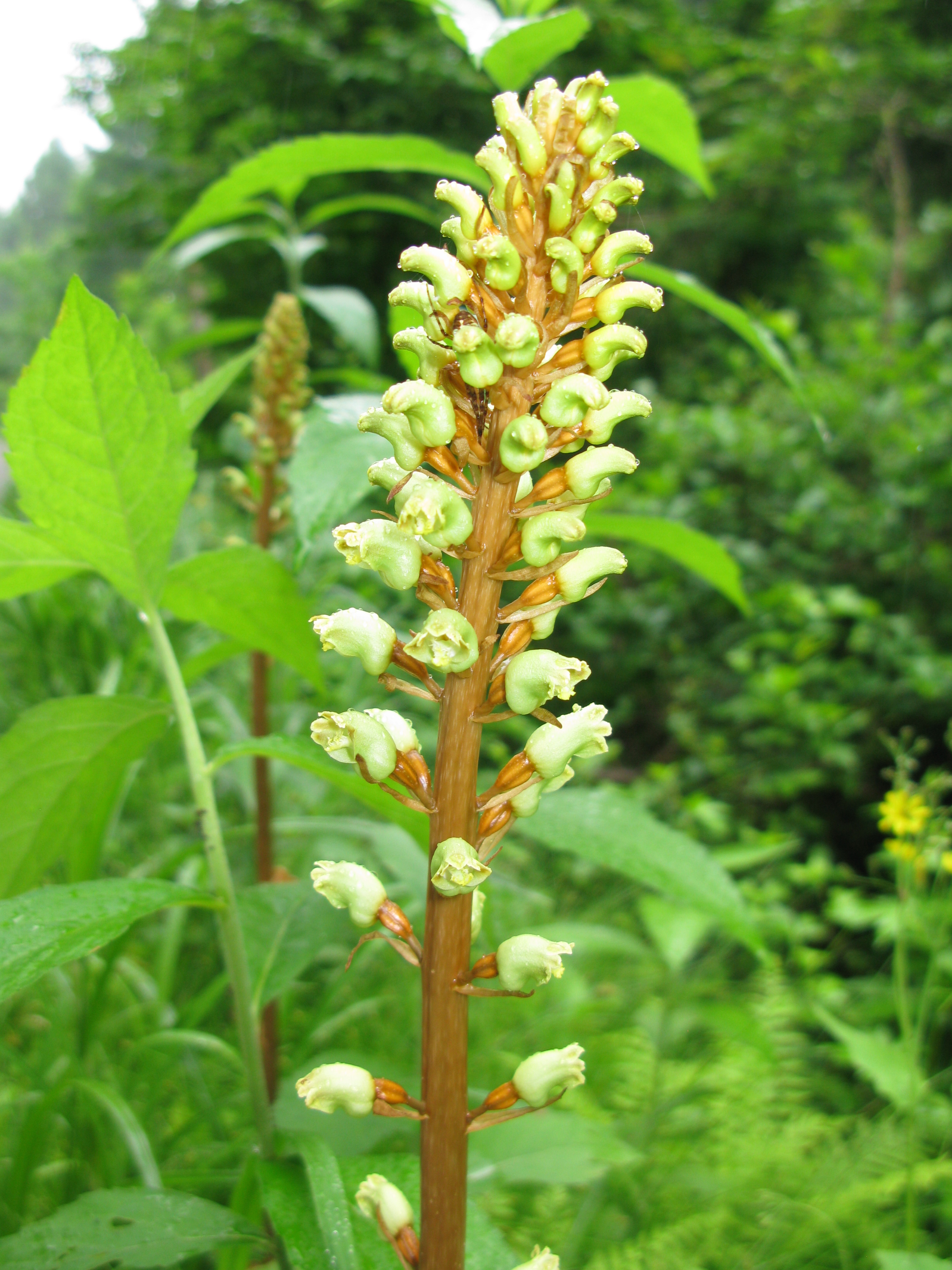 Gastrodia elata, Aizu area, Fukushima pref., Japan